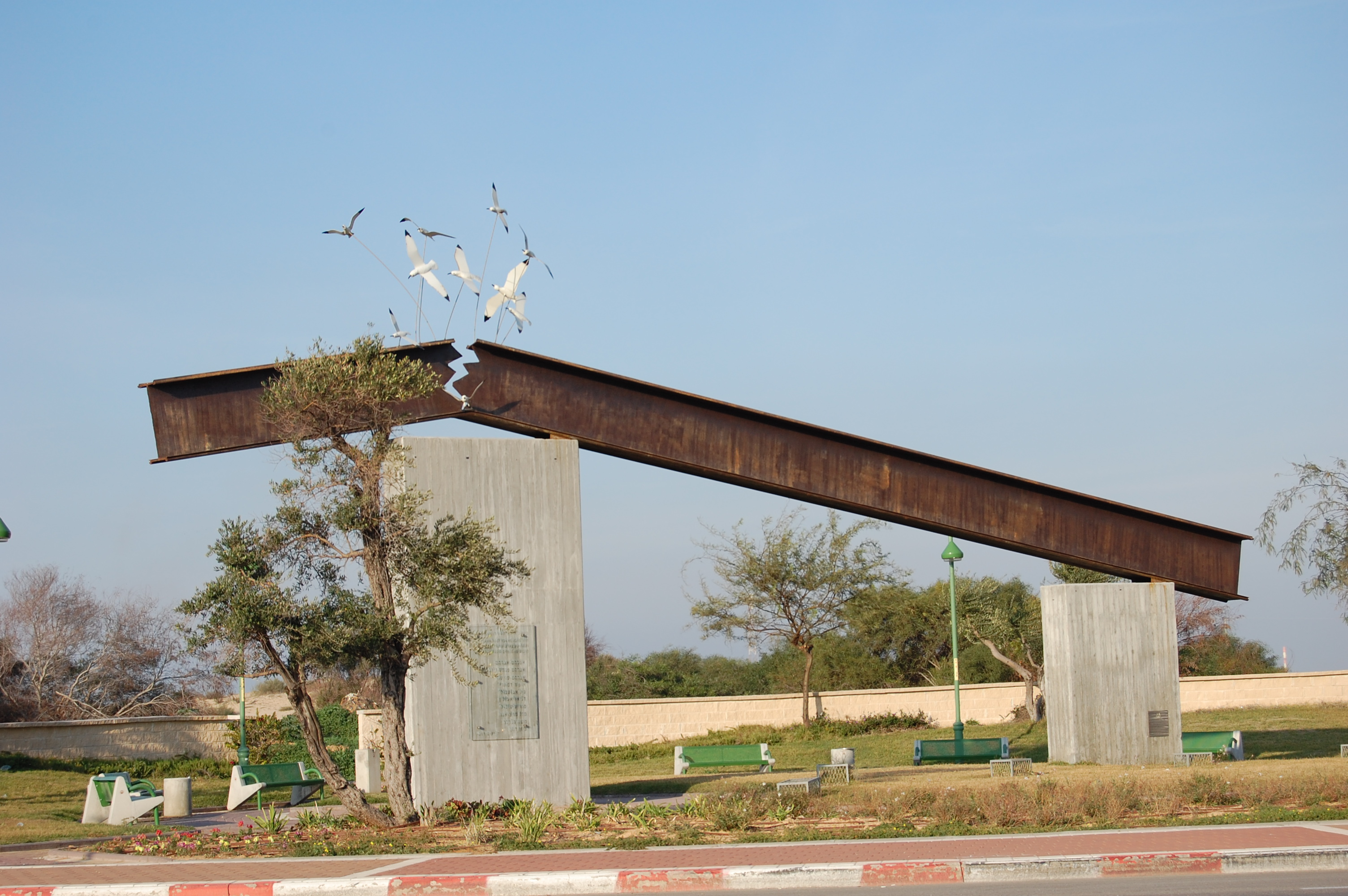 Ashdod, Geography of Israel